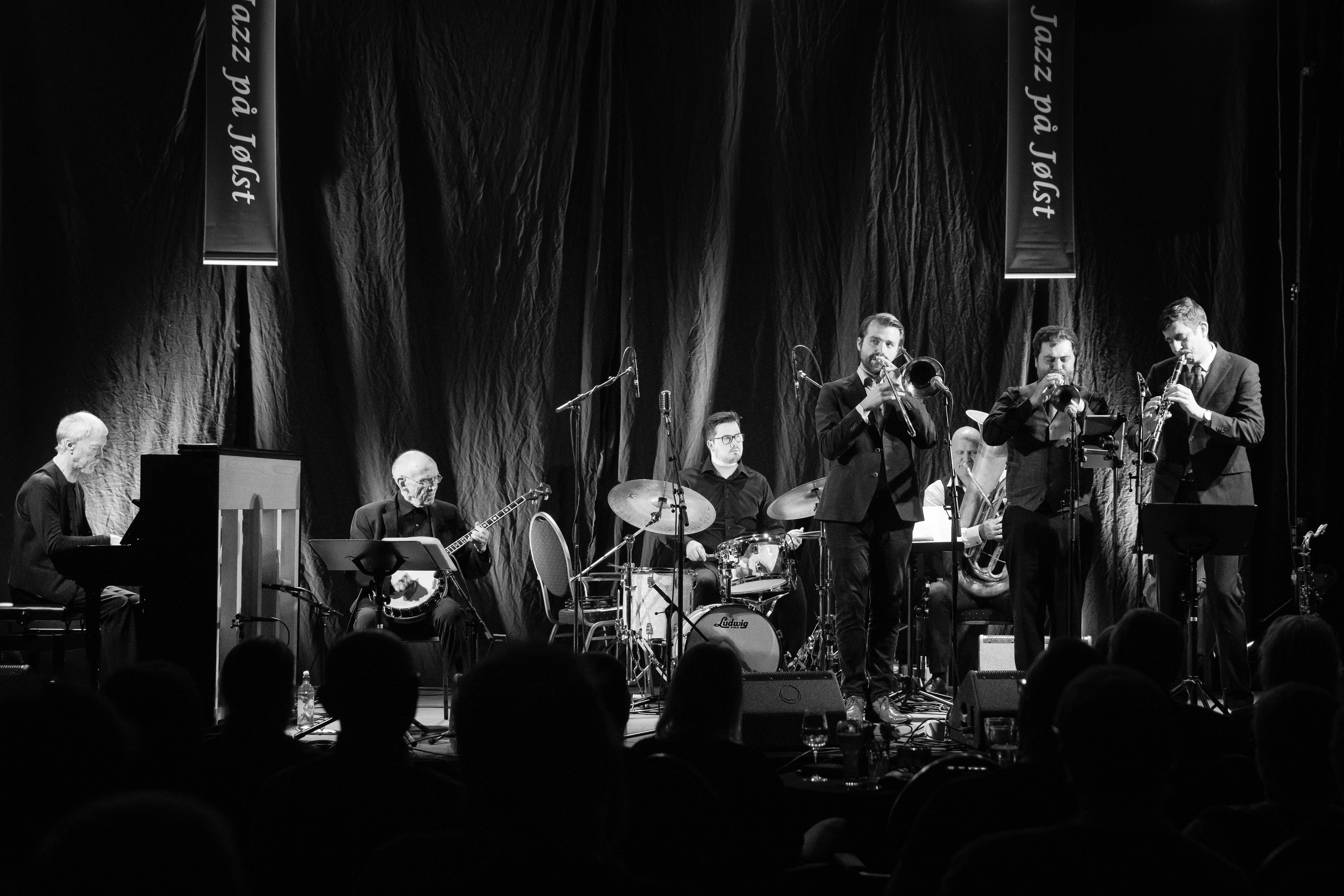 Ytre Suløens Jass-ensemble and Tricia Boutté at Thon Hotel Jølster. The concert was part of Jazz på Jølst and took place on 11. October 2019 in Jølster. Lineup:Tricia Boutté (vocal)Lars Frank (clarinet)Sturla Hauge Nilsen (trumpet)Andreas Rotevatn (trombone)Einar Aarø (banjo and guitar)David Gald (tuba)Askjell Molvær (piano)Kristoffer Tokle (drums)